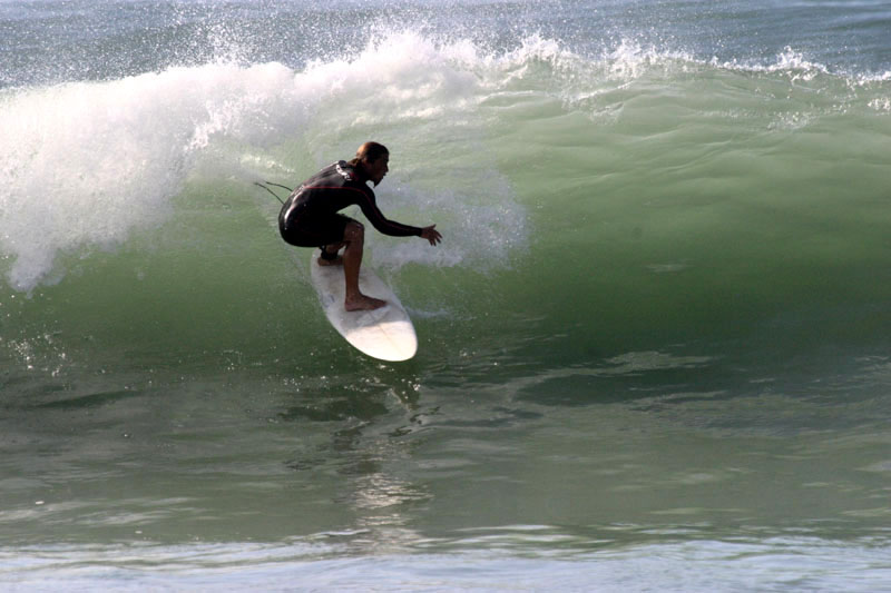 Surfing La courbe, charente